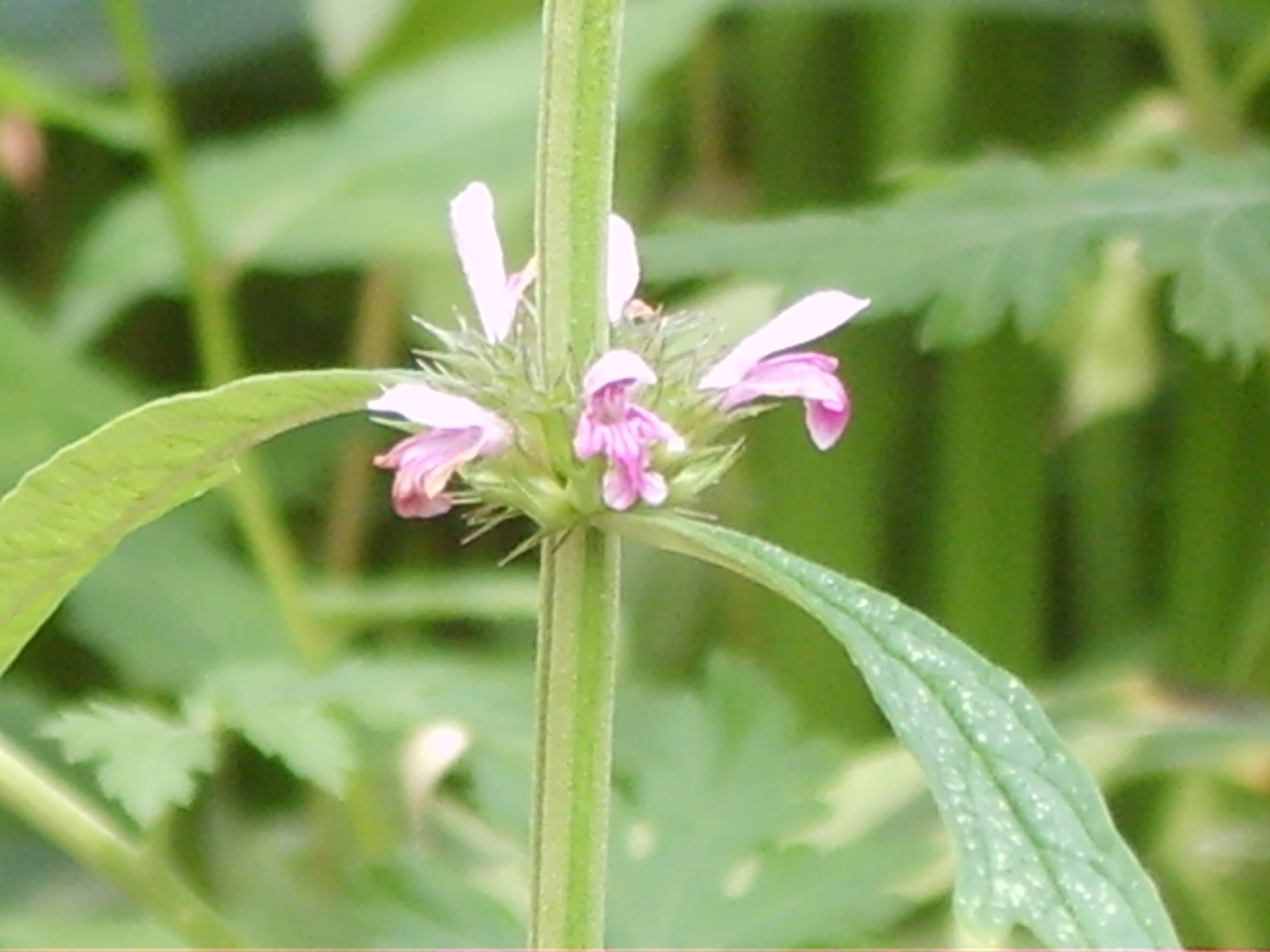 Leonurus japonicus in Gyeongbokgung palace, Korea